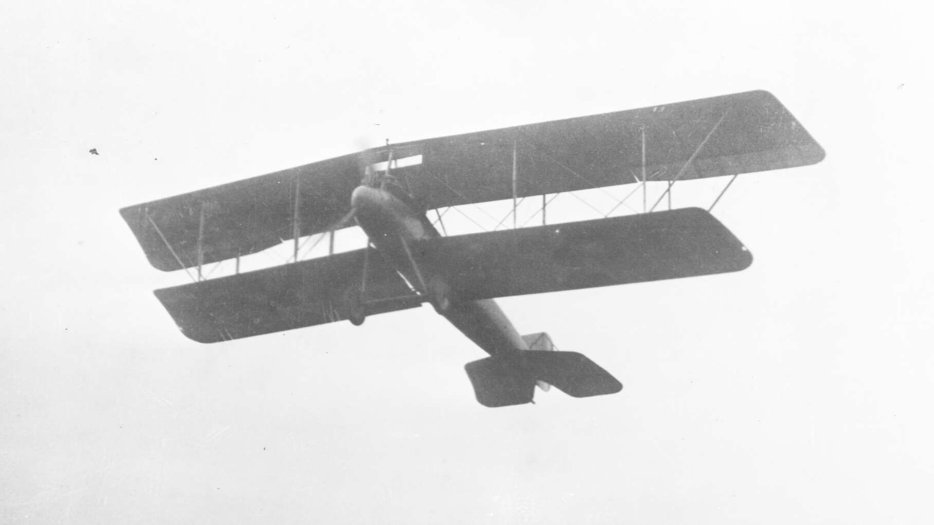 Scope and content: Photographer: L.W.F. Engineering Co.